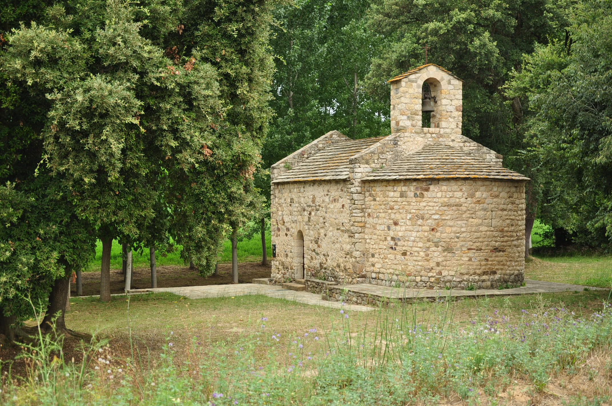 The chapel of Sant Joan de Salelles, south of the village of Sant Sadurní de l'Heura (District of Baix Empordà, Catalonia, Spain).